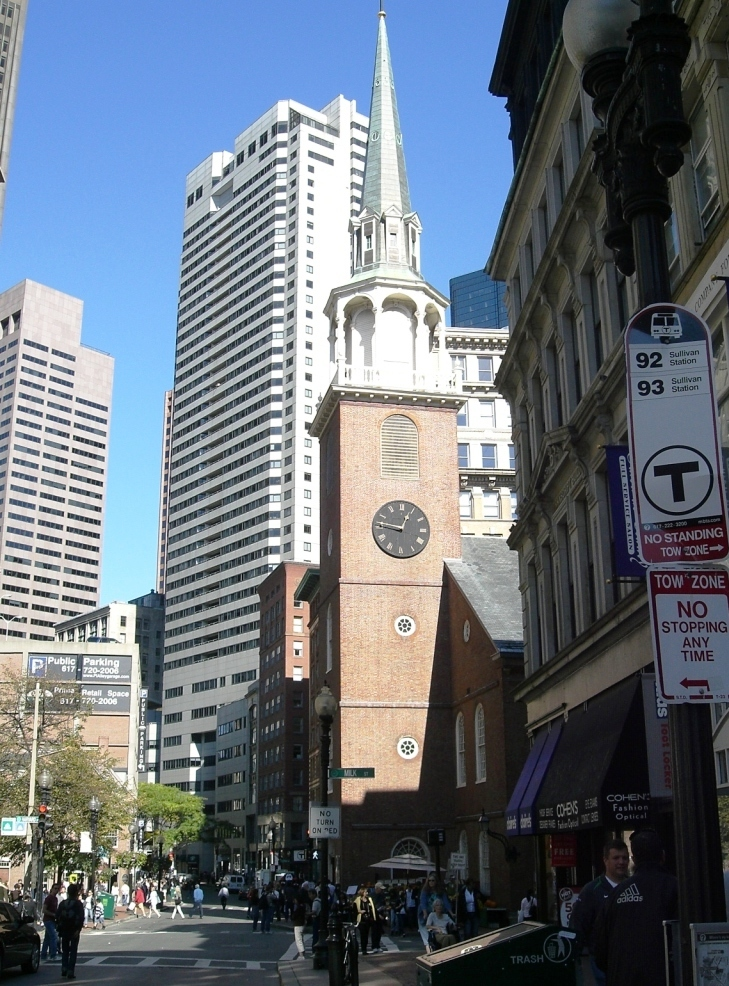 Boston, Old South Meeting House